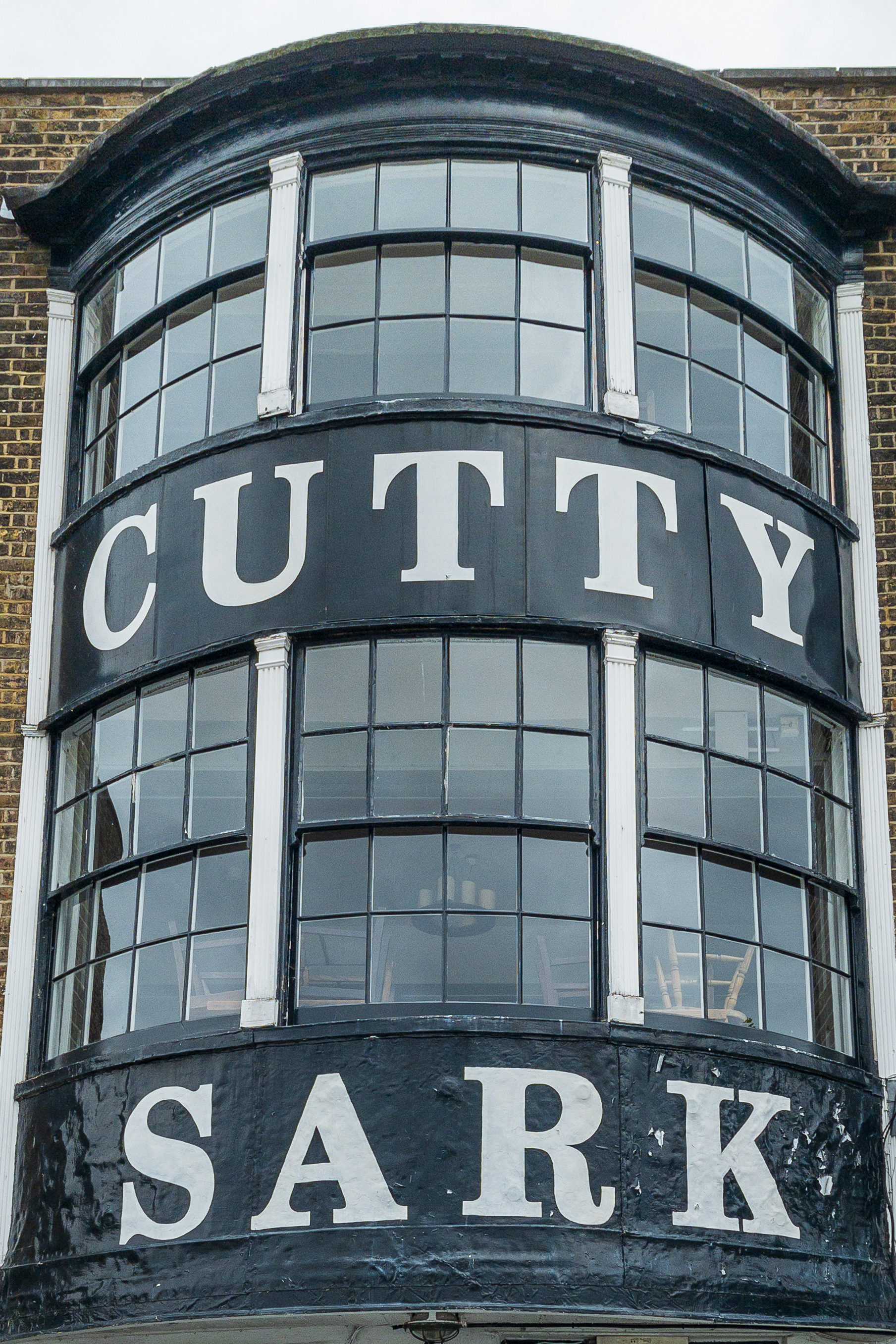 The distinctive window frontage of the Grade II listed Greenwich public house, Cutty Sark.